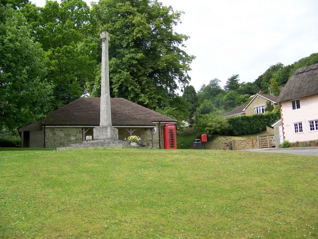 Village green, East Knoyle A K6 type telephone box set against Wren's Store with the village war memorial.